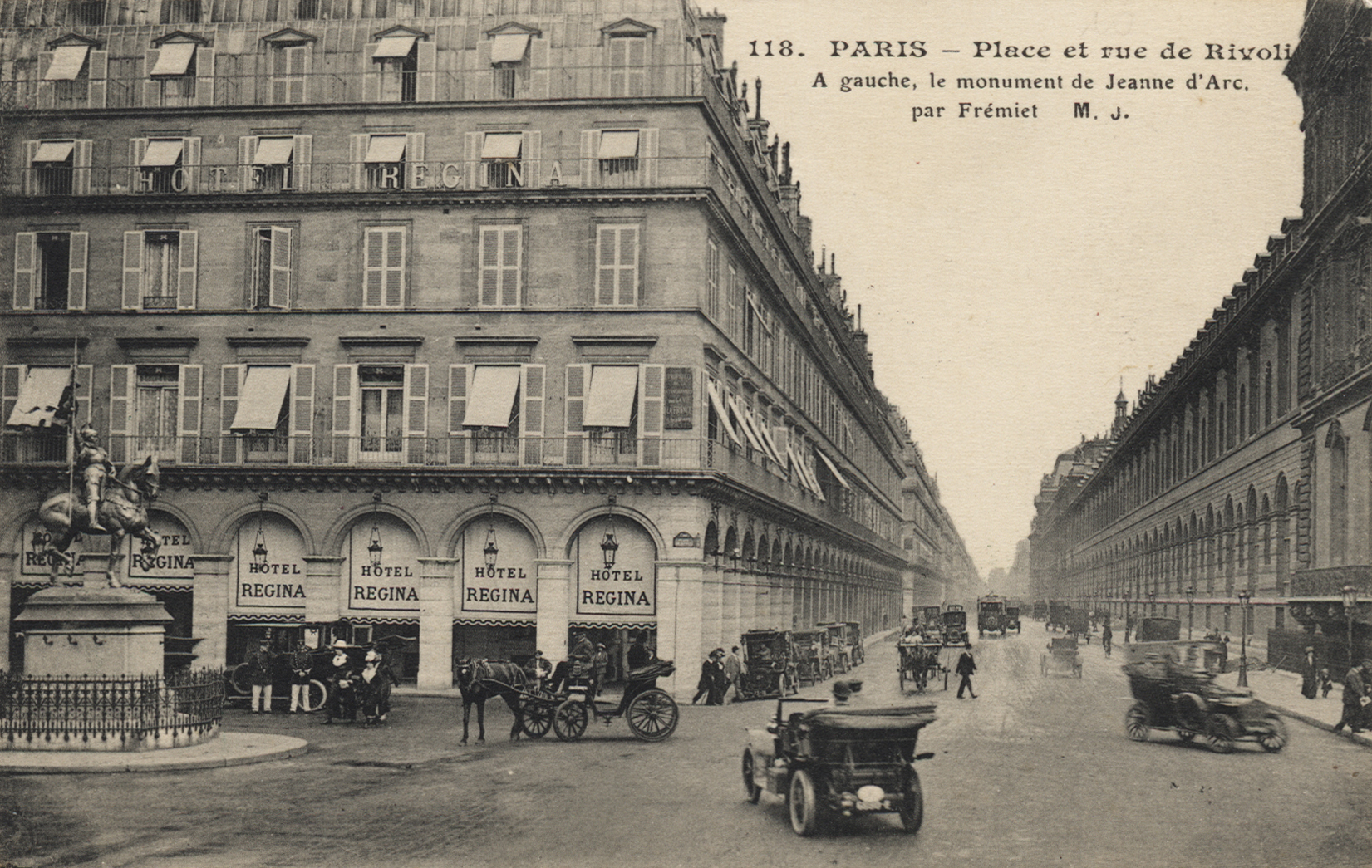 L'Hôtel Regina au début du 20ème siècle.